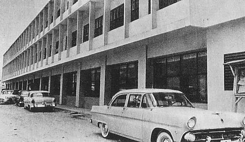 Judicial Building of GRI(Government of the Ryukyu Islands)